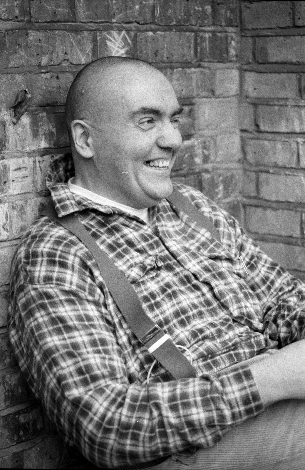 Portrait of Edward Dutkiewicz, London, 1999